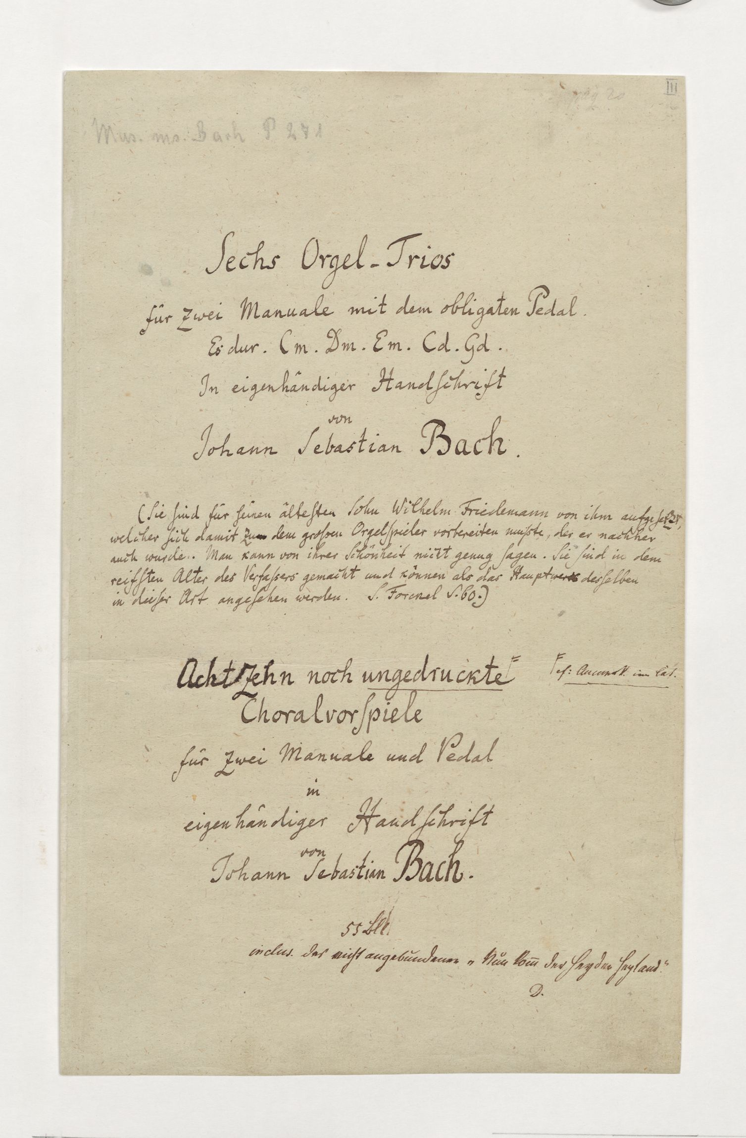 Title page for collection of organ sonatas, BWV 525–530, by Johann Sebastian Bach. The page was written by the copyists Poelchau